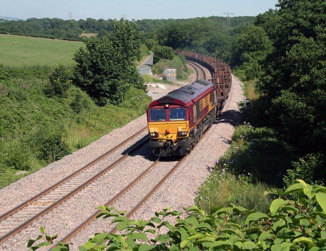 Steel Empties head for Margam yard nr Llangewydd Court farm